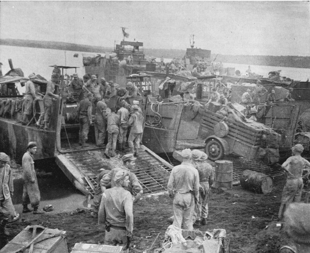 US Marines embark for an assault on Talasea on New Britain, March 1944